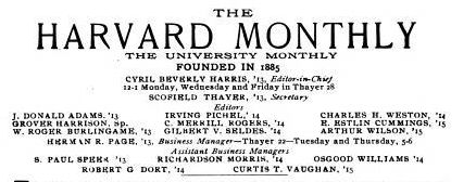 masthead from volume 56 of The Harvard Monthly, showing Cummings as one of the editors at age 20